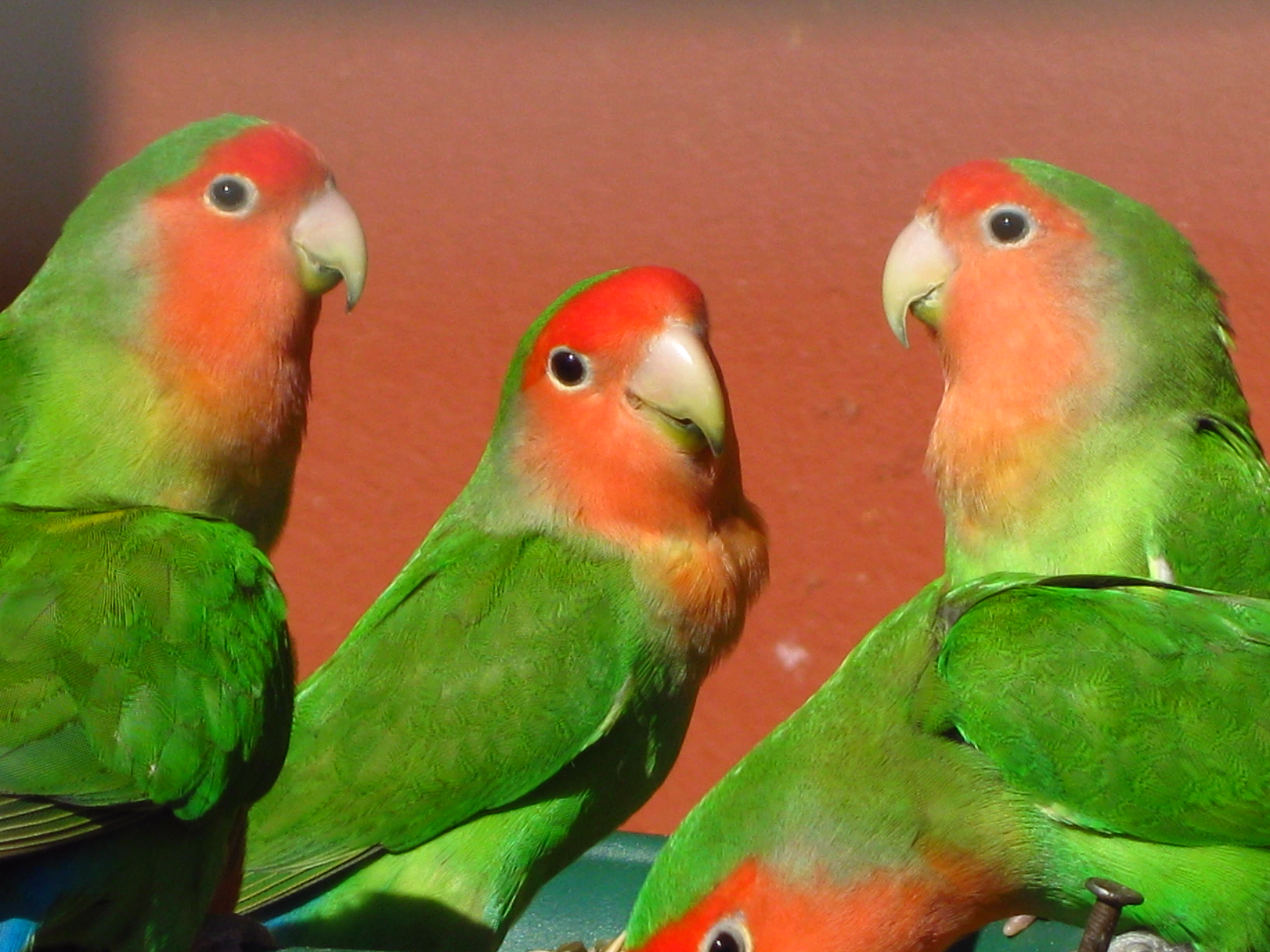 Rosy-faced Lovebirds (also known as the Peach-faced Lovebirds) at Marwell Zoo, Hampshire, England.